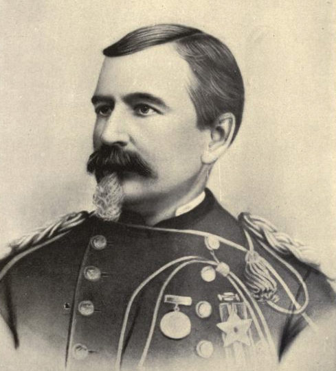 Col. Anson Mills Other information No.